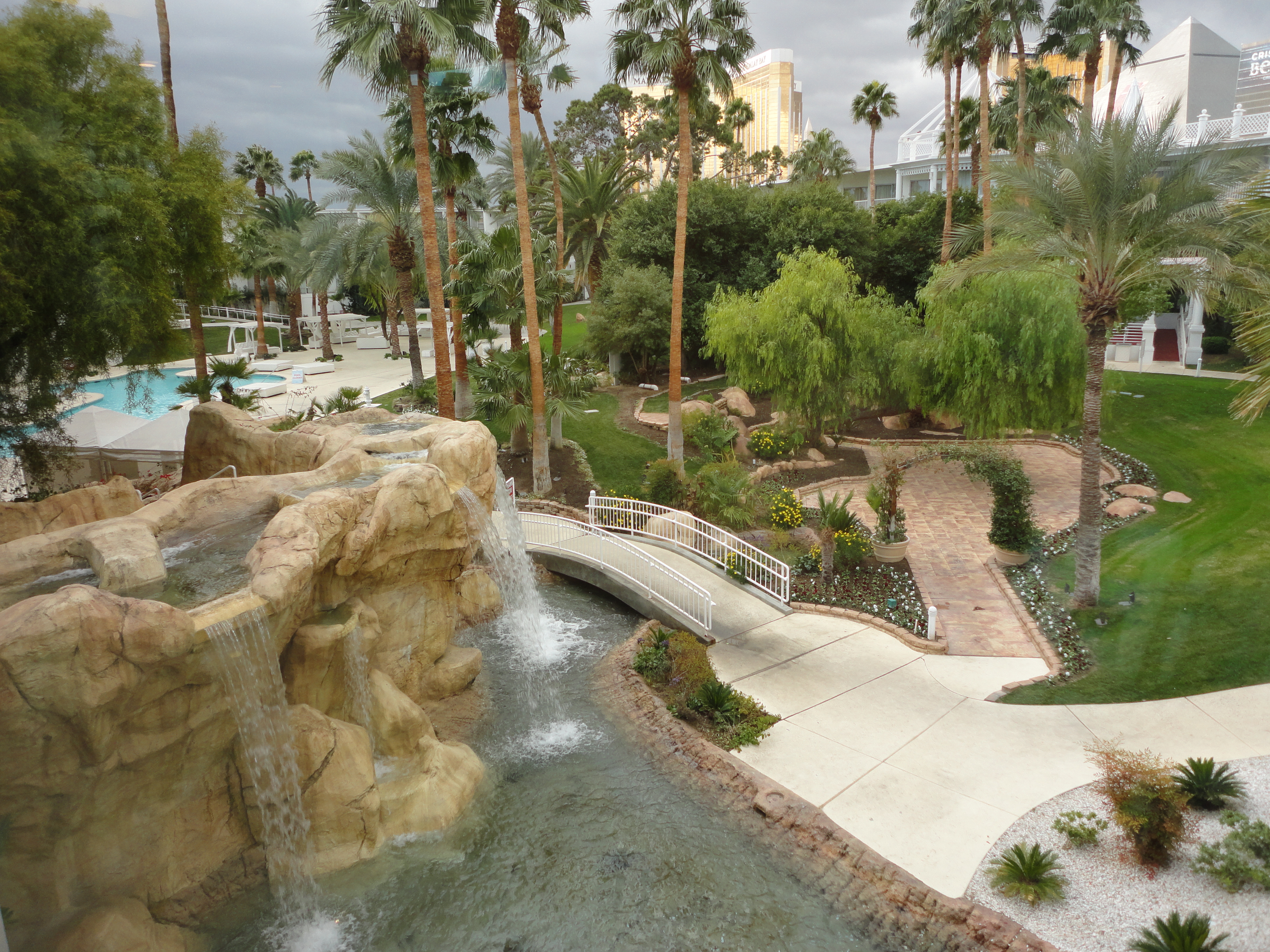 Pool and graden at Tropicana Las Vegas